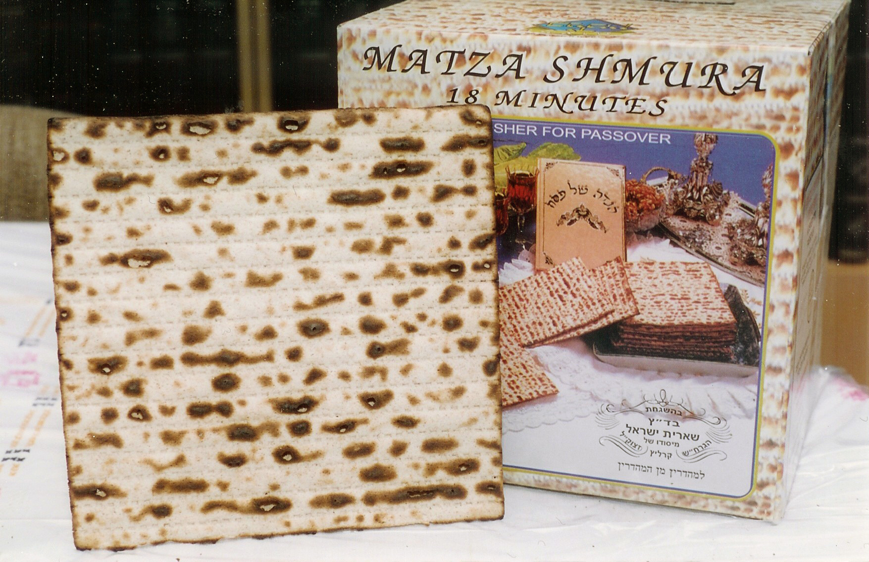 Photo of machine-made Shmura Matzo eaten during Passover week. Photo taken on April 12 2006 by Yoninah.